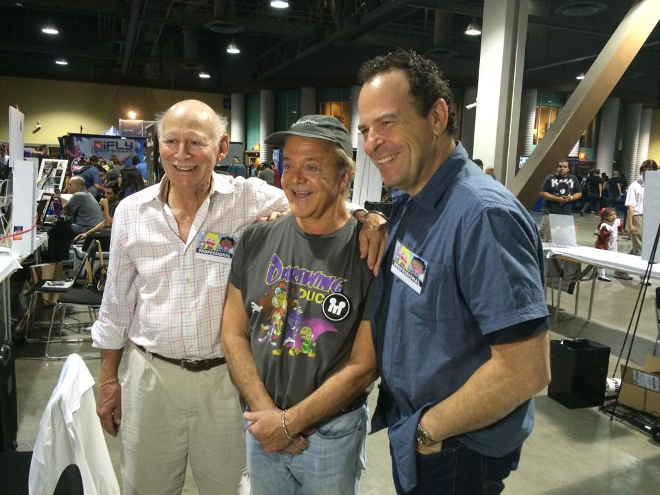 Loren Lester Fellow Actors Jim Cummings Alan Oppenheimer